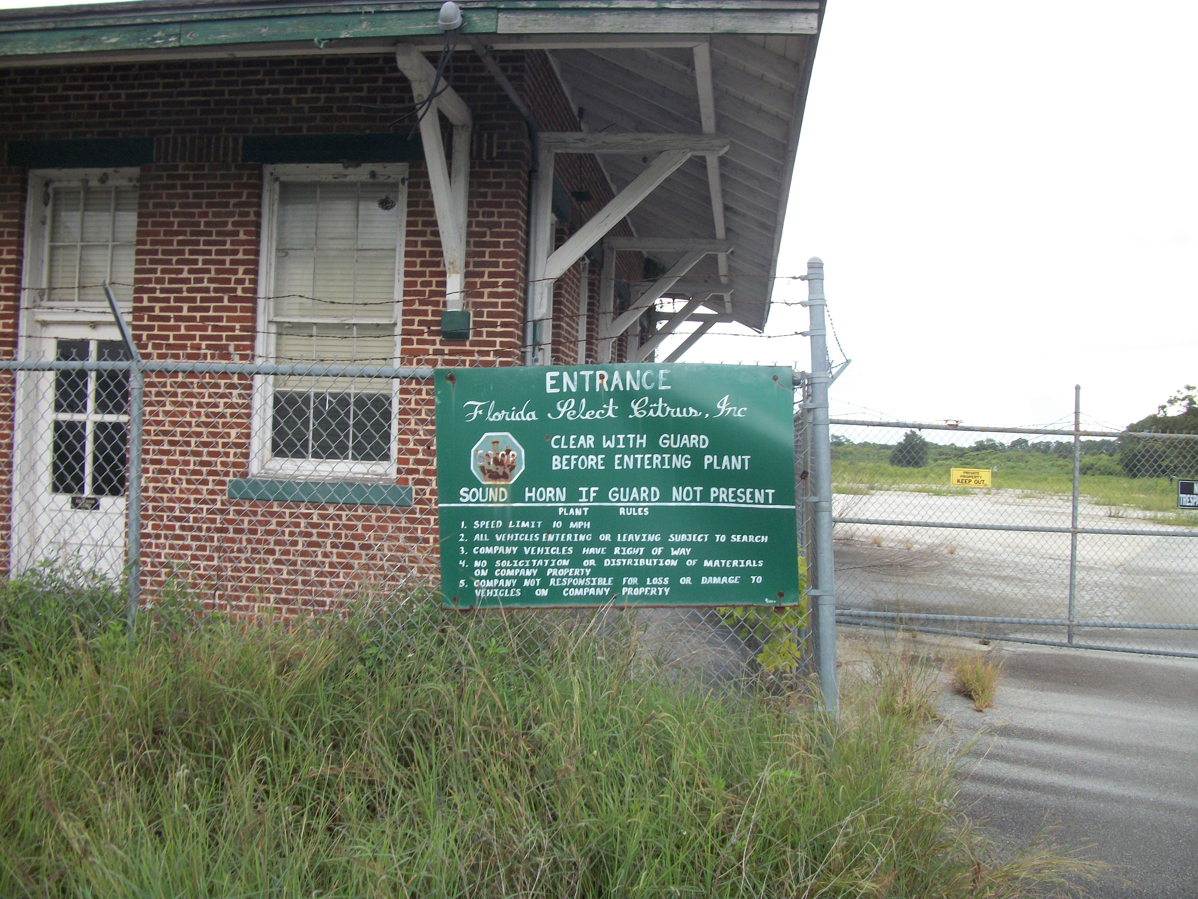 Close-up of the sign on the front of the former Orange Belt Railway station acquired by the Atlantic Coast Line Railroad and later abandoned in Groveland, Florida. This is on the northwest corner of Florida State Road 19 and westbound Florida State Road 50. The sign is for an old company called "Florida Select Citrus, Incorporated."